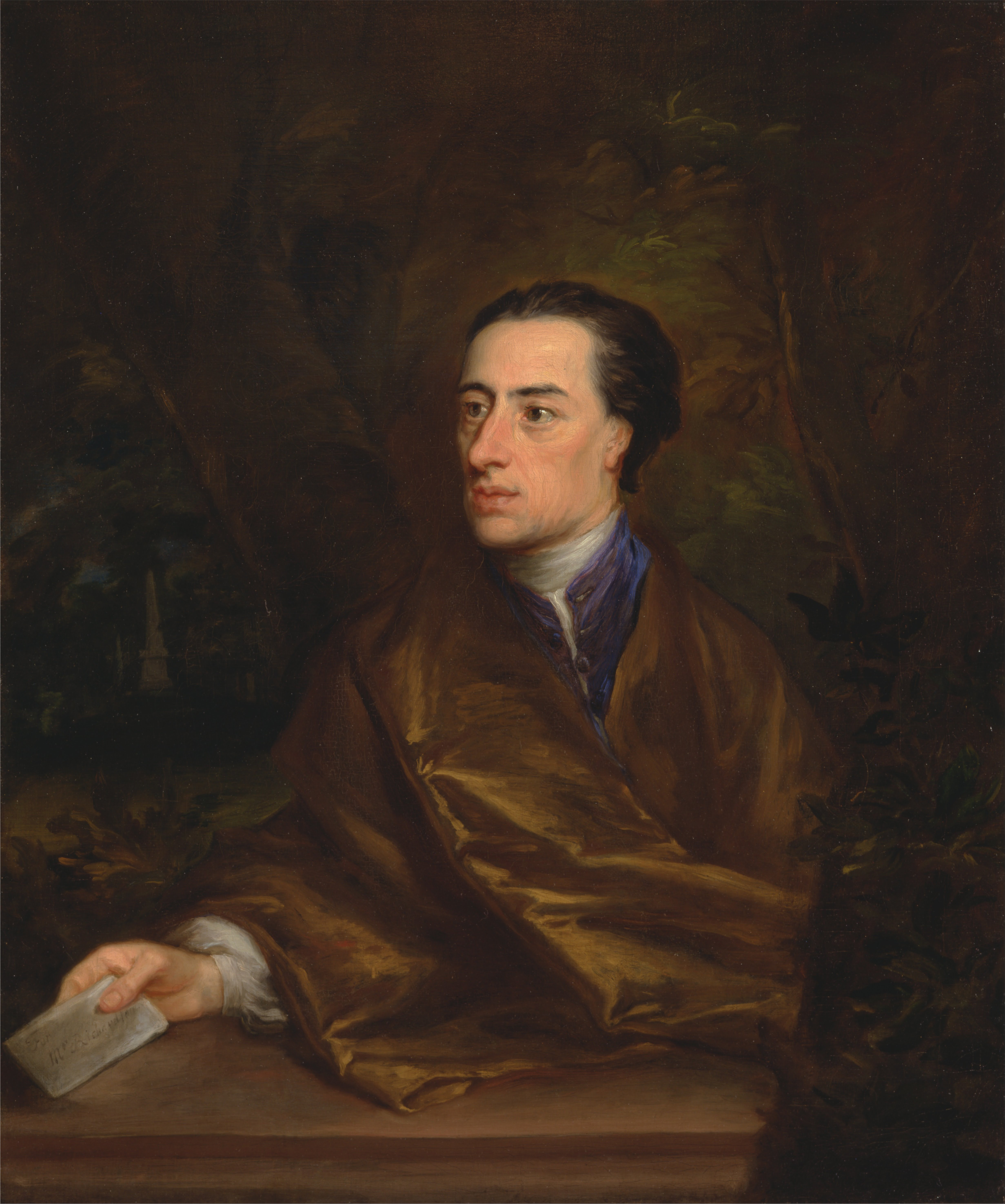 Portrait of Alexander Pope, wearing a brown cloak and no wig, holding a letter inscribed "For Mr. Richardson," in a forest at night with an obelisk in the background.